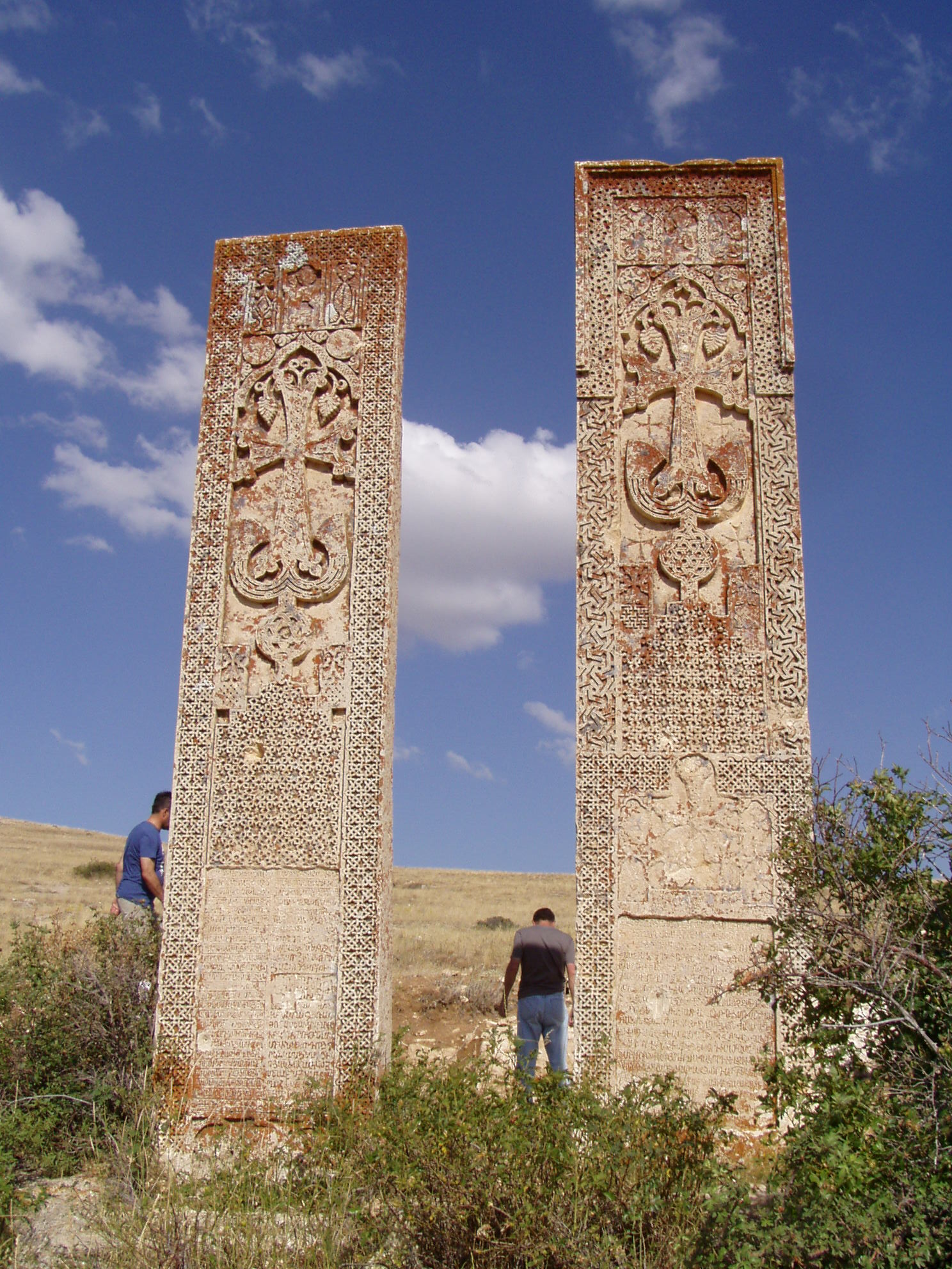 Aprank, Big Armenian Khachkars (Cross-Stones) near Surb Hovanes Church & Surb David Chapel